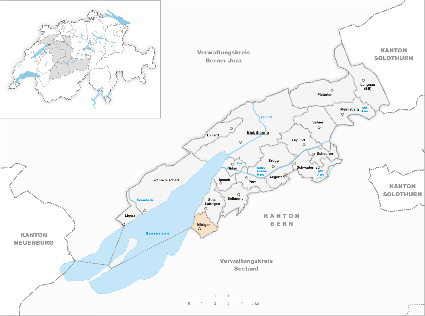 Municipality Mörigen